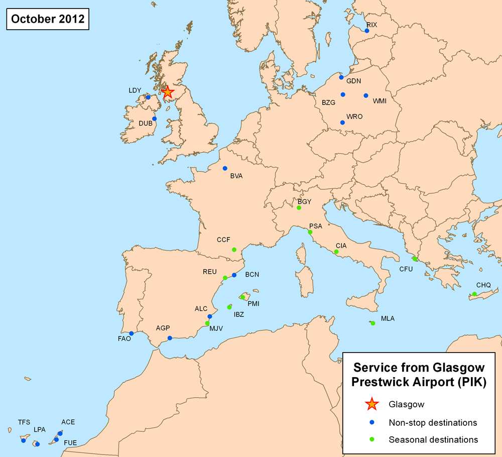 This is a route map for Glasgow Prestwick Airport as of June 2010. Map is an Azimuthal equidistant projection centered on the airport so straight lines from Glasgow are along great circle routes.